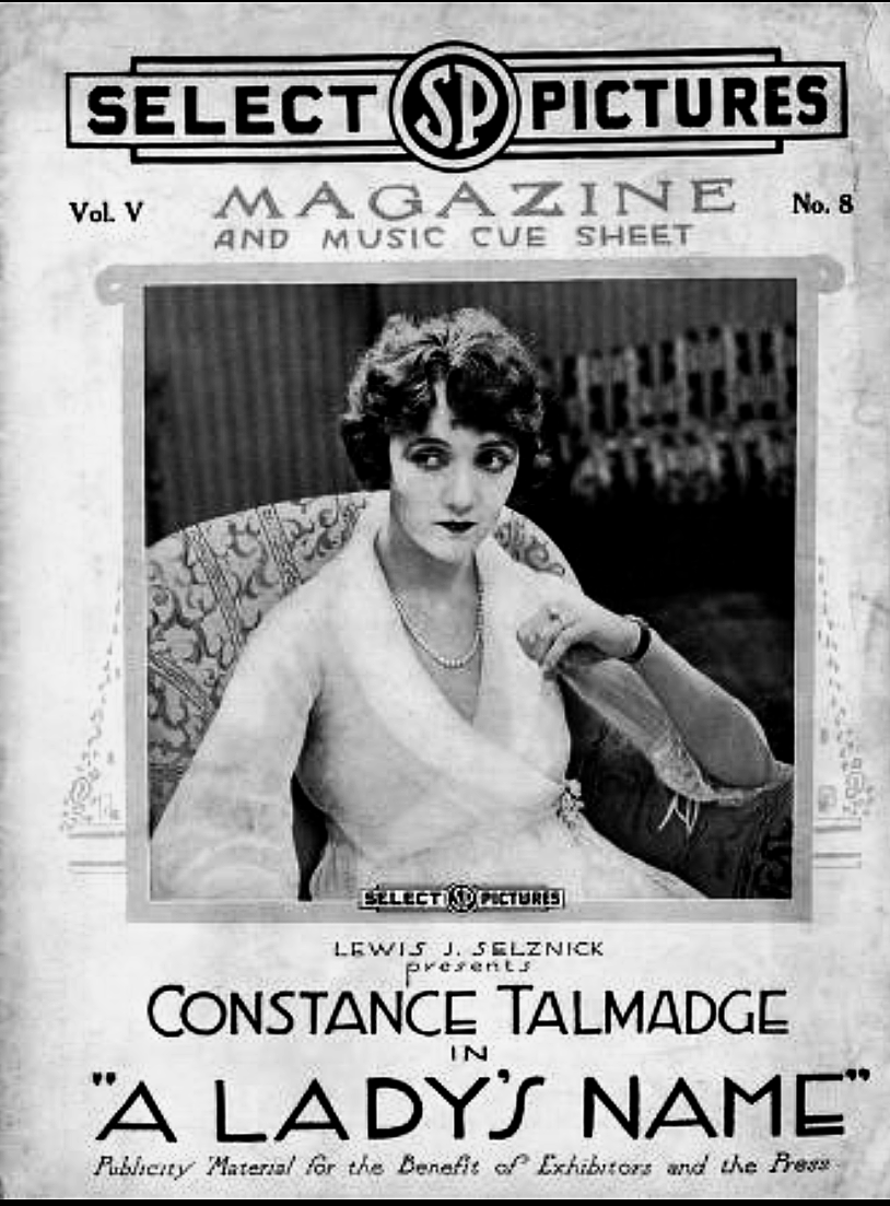 Full page ad from Select Magazine